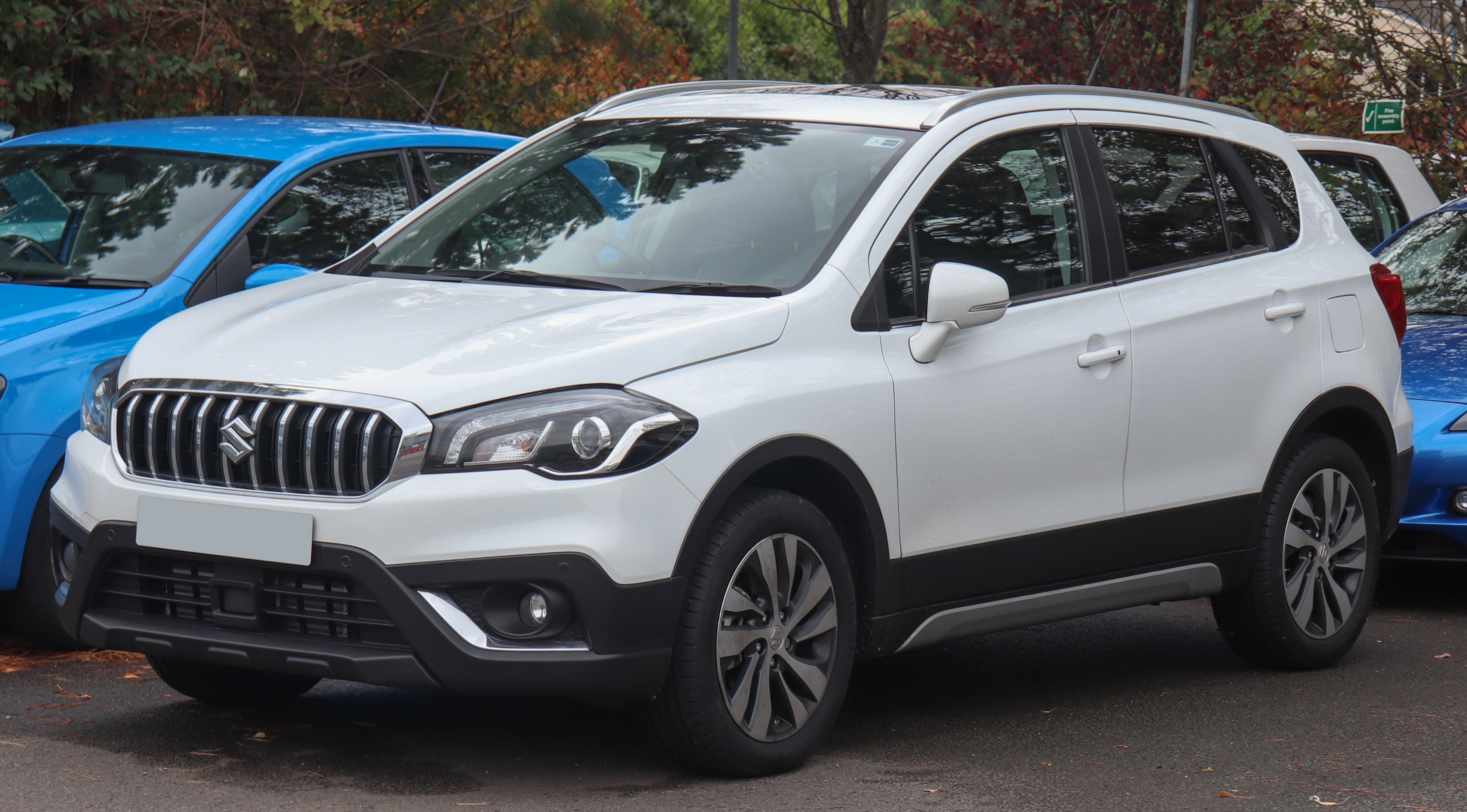 2018 Suzuki SX4 S-Cross SZ5 DDIS Allgrip 1.6 Front Taken in Leamington Spa